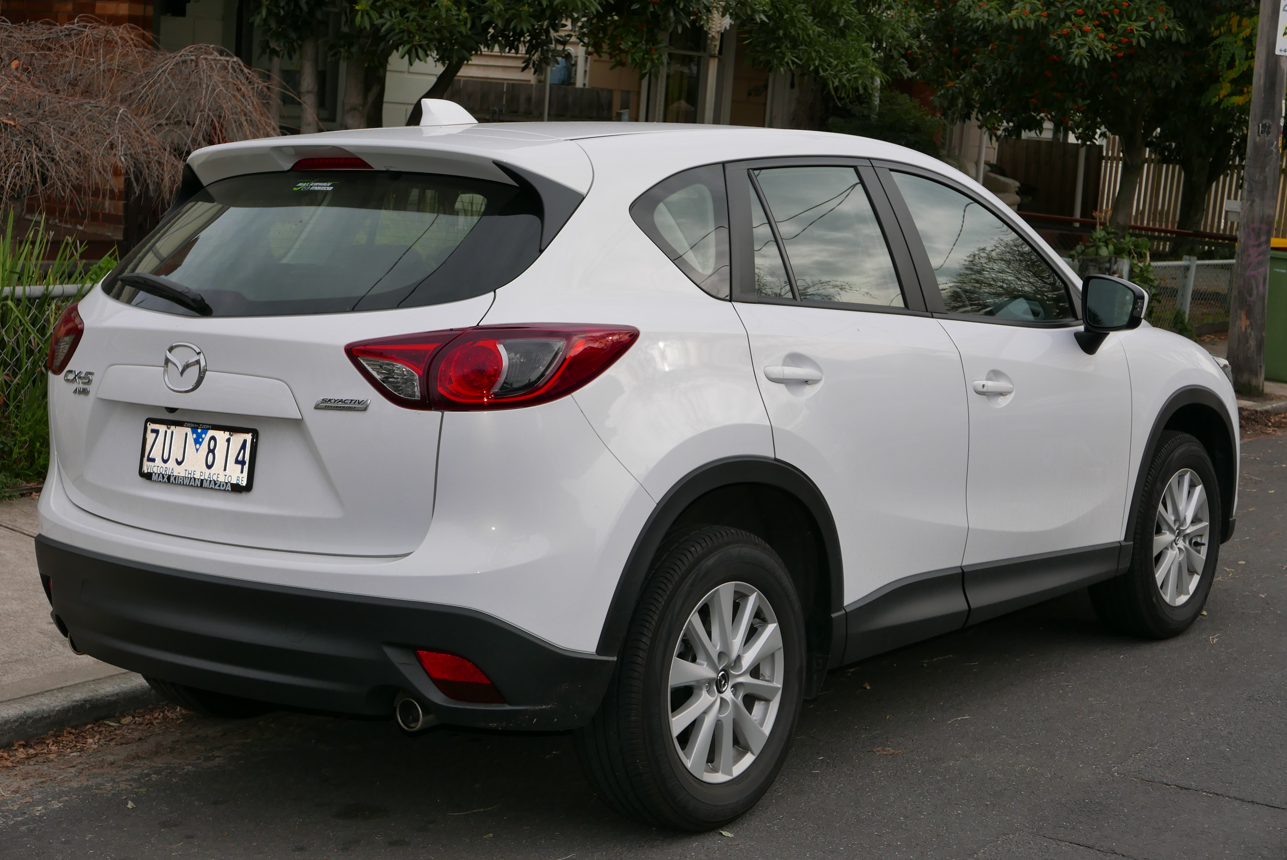 2013 Mazda CX-5 (KE MY13) Maxx Sport AWD wagon. Photographed in Northcote, Victoria, Australia. Vehicle registration enquiry resultsJurisdictionVictoriaRegistrationZUJ814Chassis codeJM0KE103100207742Engine codePY30249998Compliance date2013-05Year of manufacture2013